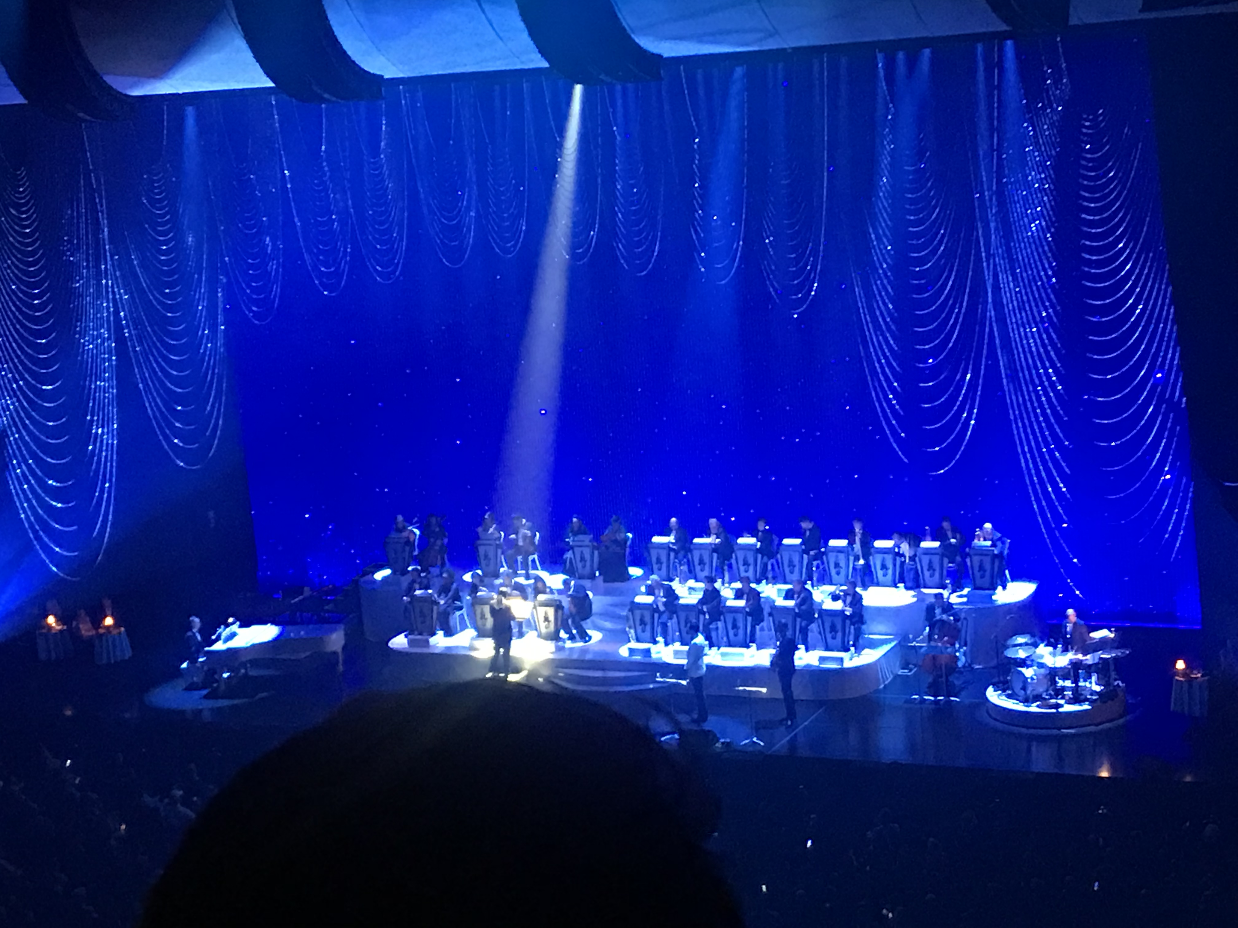 Lady Gaga performing at Jazz & Piano